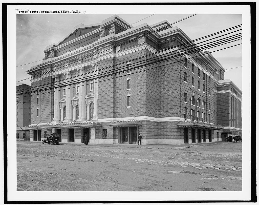 Title: Boston Opera House, Boston, Mass. Related Names: Detroit Publishing Co. , publisher Date Created/Published: c[between 1900 and 1910] Medium: 1 negative : glass ; 8 x 10 in. Repository: Library of Congress Prints and Photographs Division Washington, D.C. 20540 USA Part of: Detroit Publishing Company Photograph Collection